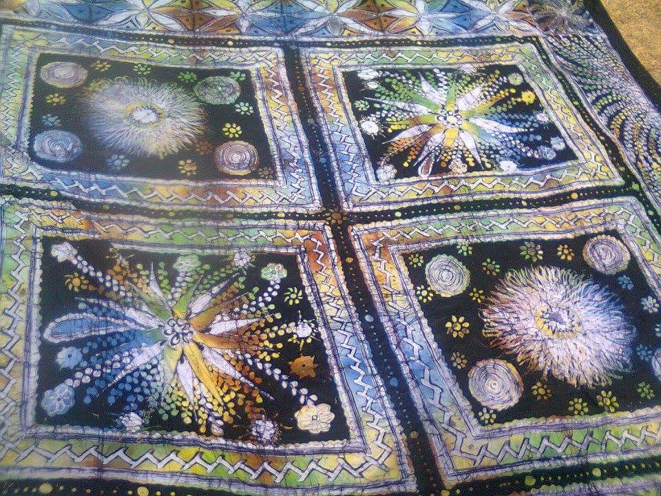 Traditional Adire cloth made of Kampala This is an image of Cultural Fashion or Adornment from Nigeria